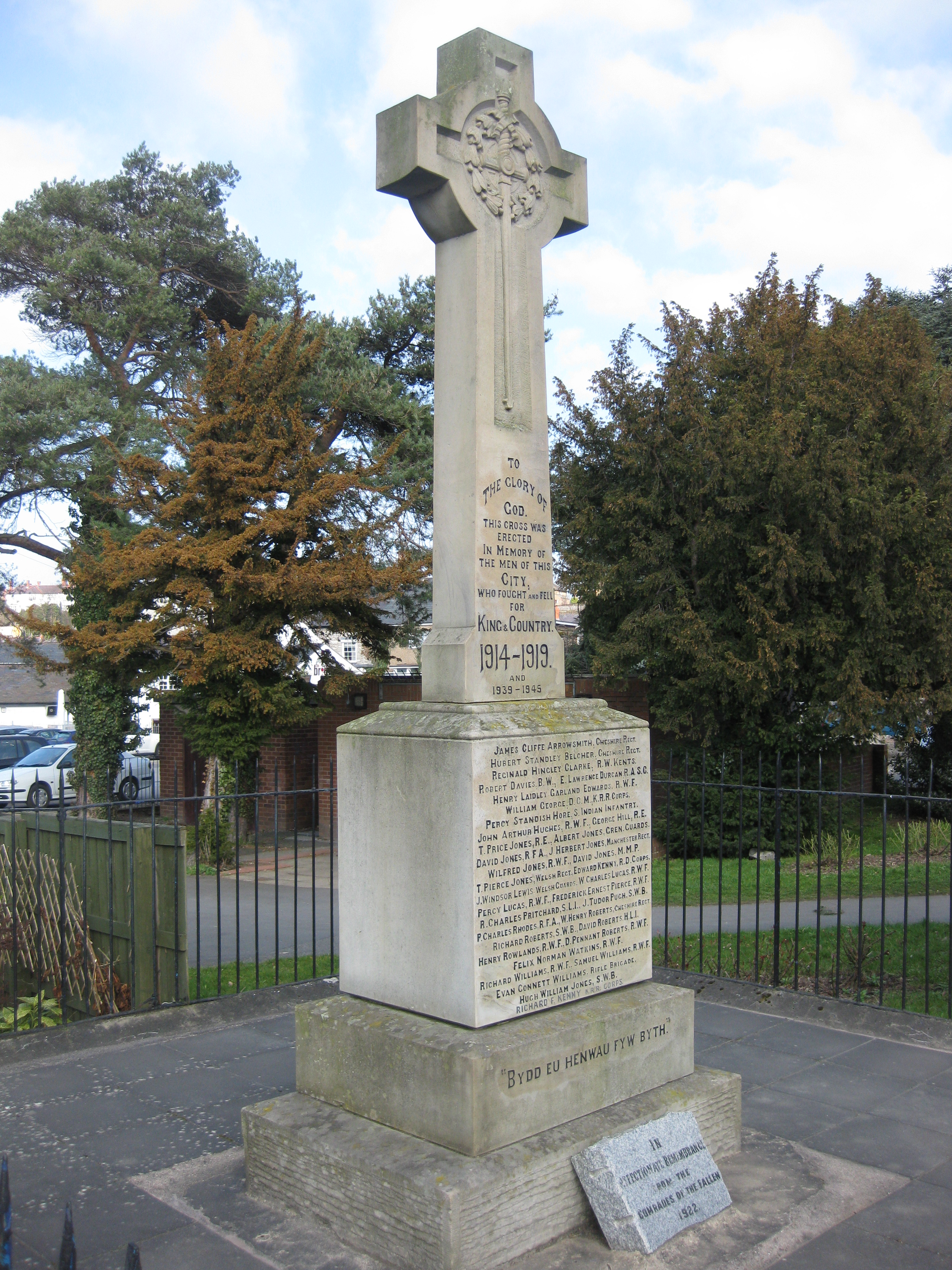 St Asaph War Memorial